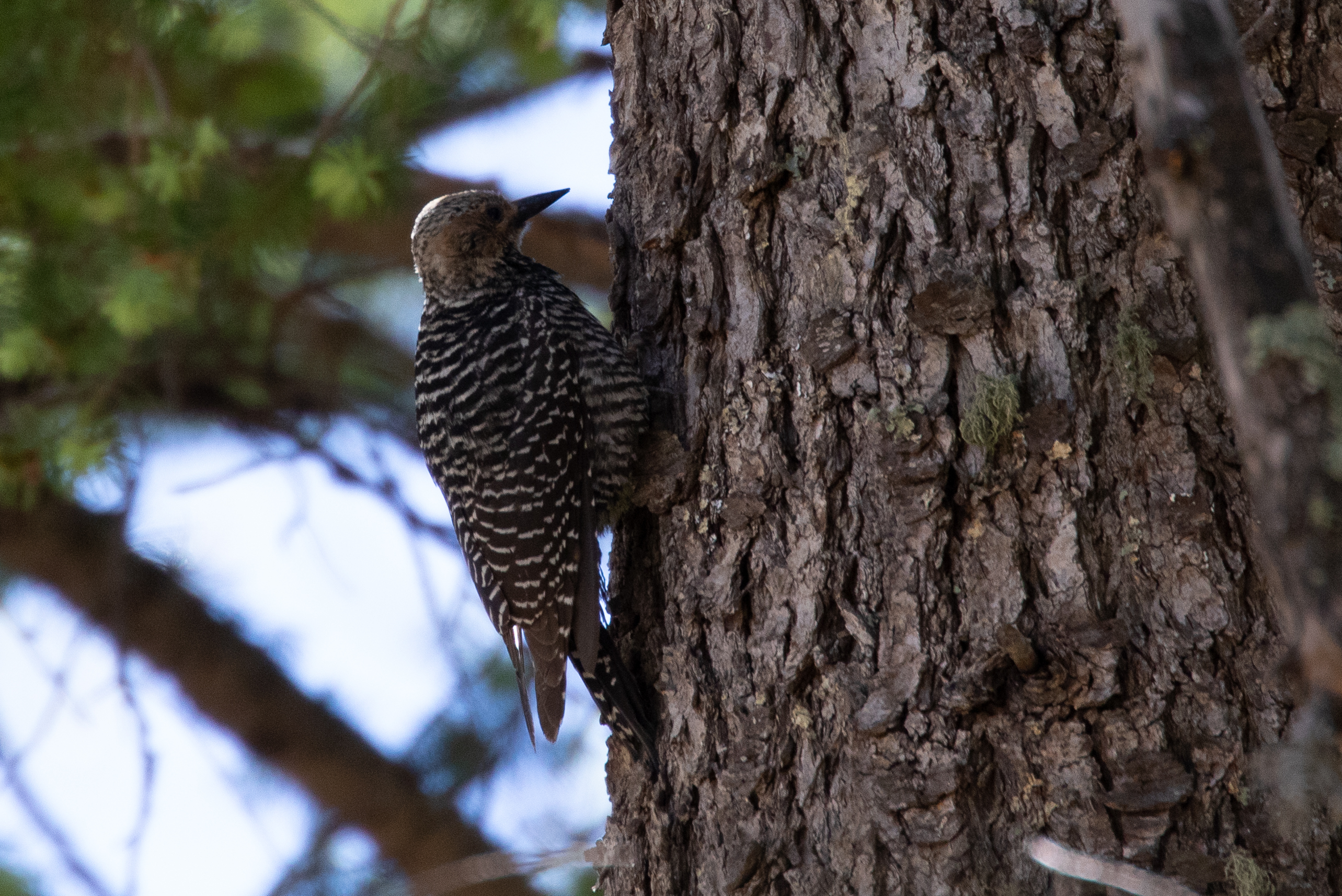 Williamson's Sapsucker (female) | Rd to Barfoot | Portal | AZ|2018-05-10|13-22-23